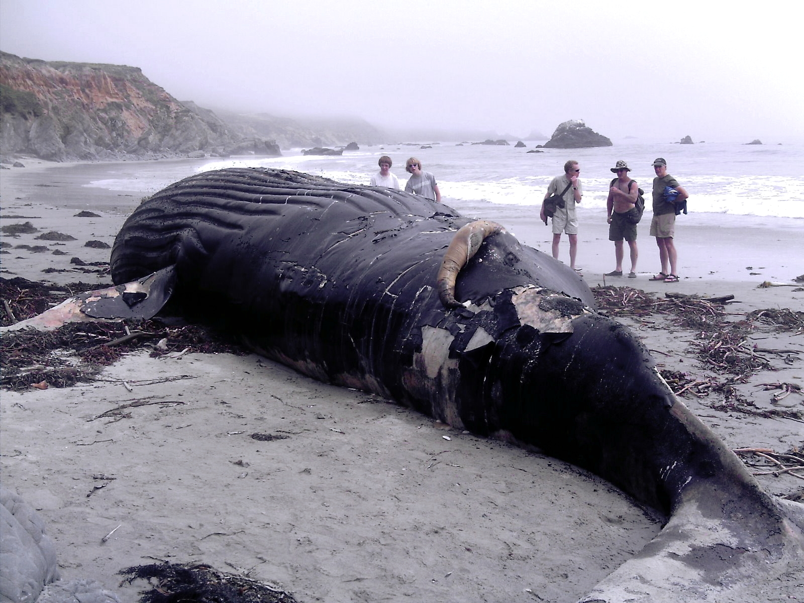 A dead Humpback Whale washed up near Big Sur, California. Cause of death is unknown.